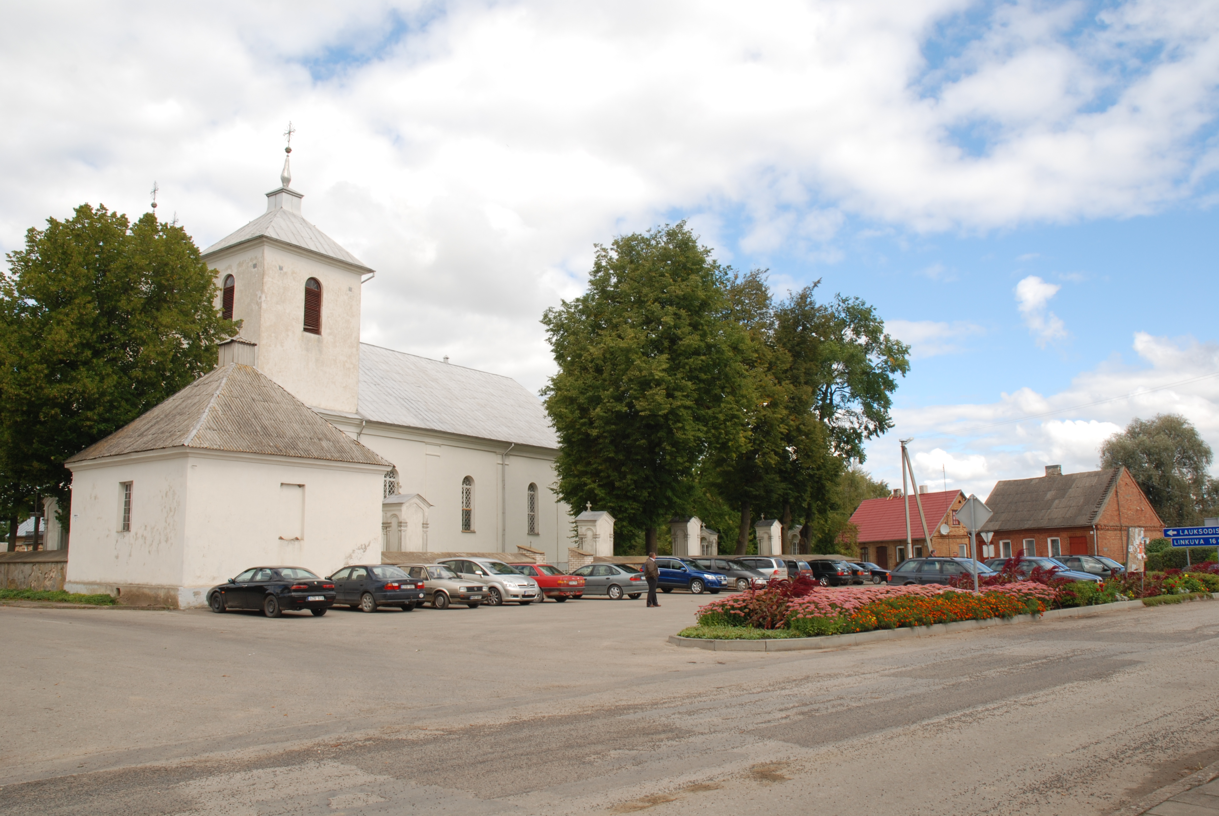 Pašvitinys, Pakruojis District, Lithuania